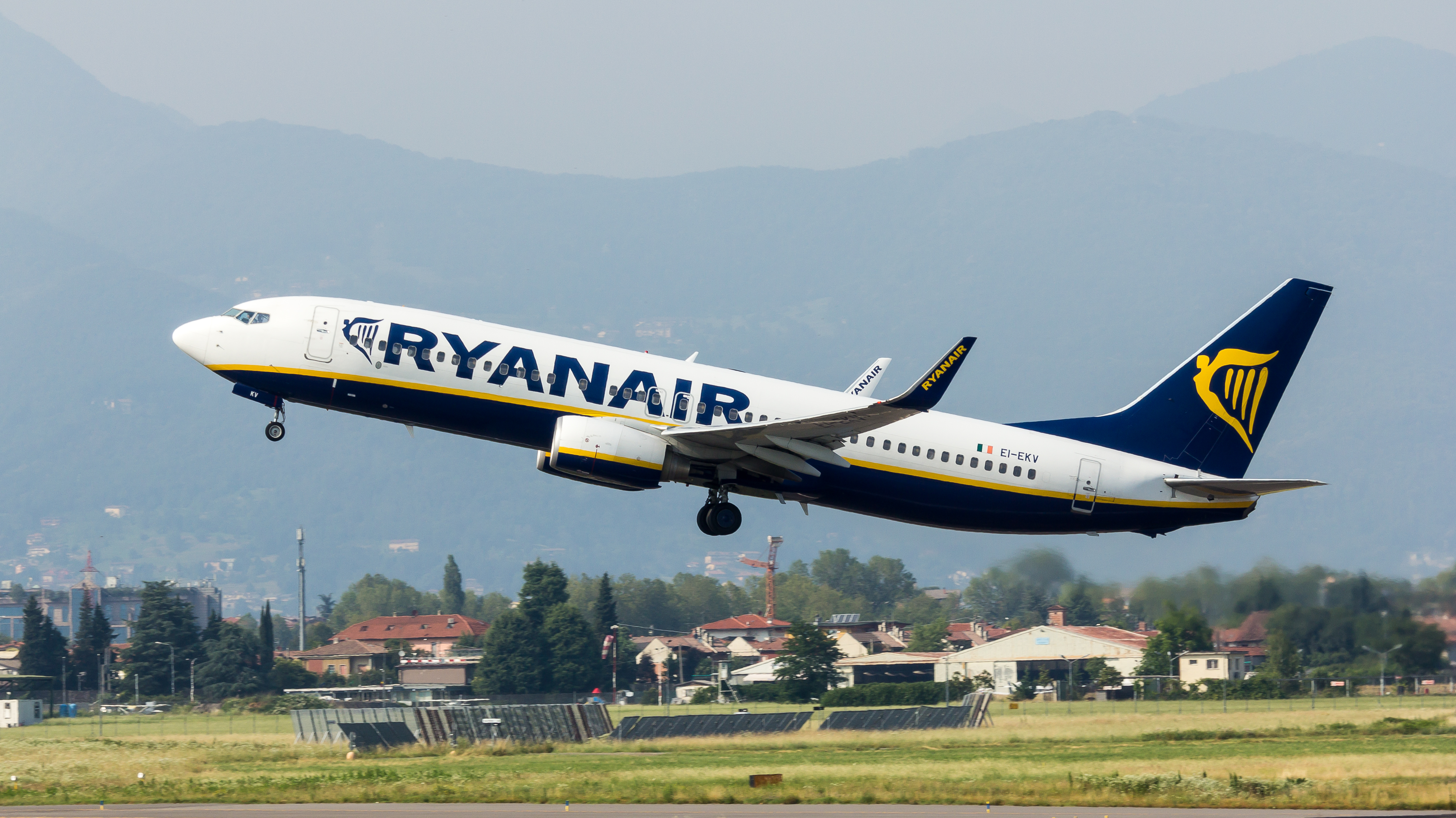 Ryanair - Boeing 737-800 - EI-EKV - Orio al Serio International Airport